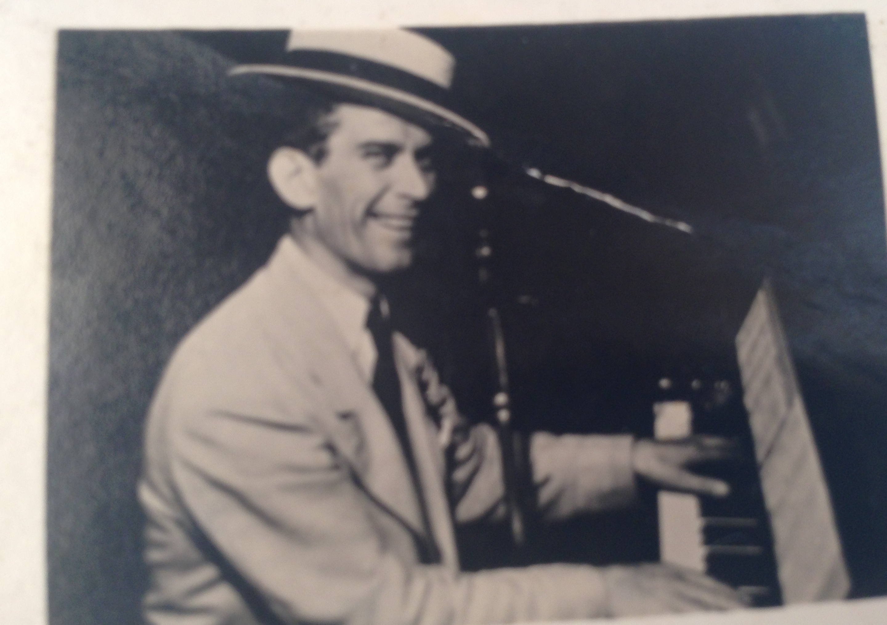 Greg Kelsall (W G Kelsall) in New York in the 1920's